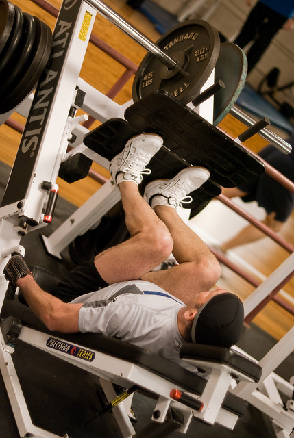 Leg press